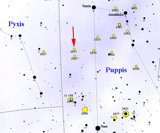 Map of NGC 2571